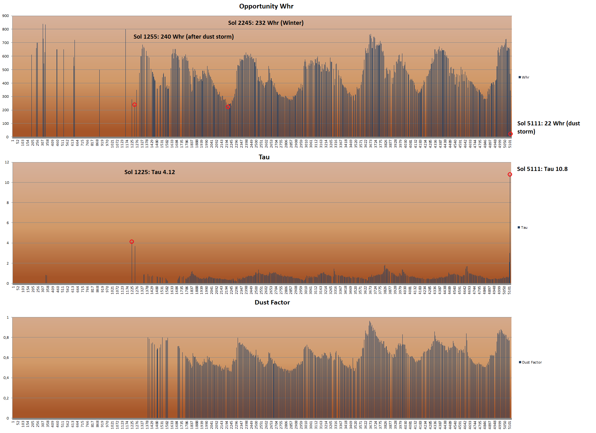 Values of the energy production (in Watthours), tau (atmosphere opacity) and the dust factor for the rover Opportunity since landing in 2004. Highlighted are the minimum energy levels in the dust storm of 2007, in the winter time 2010 and at the beginning of the dust storm of 2018. In the second diagram the values of tau are displayed. Highlighted are the max tau in the dust storm of 2007 (4.12) and of the dust storm of 2018 (10.8). The third diagram shows the dust factor.